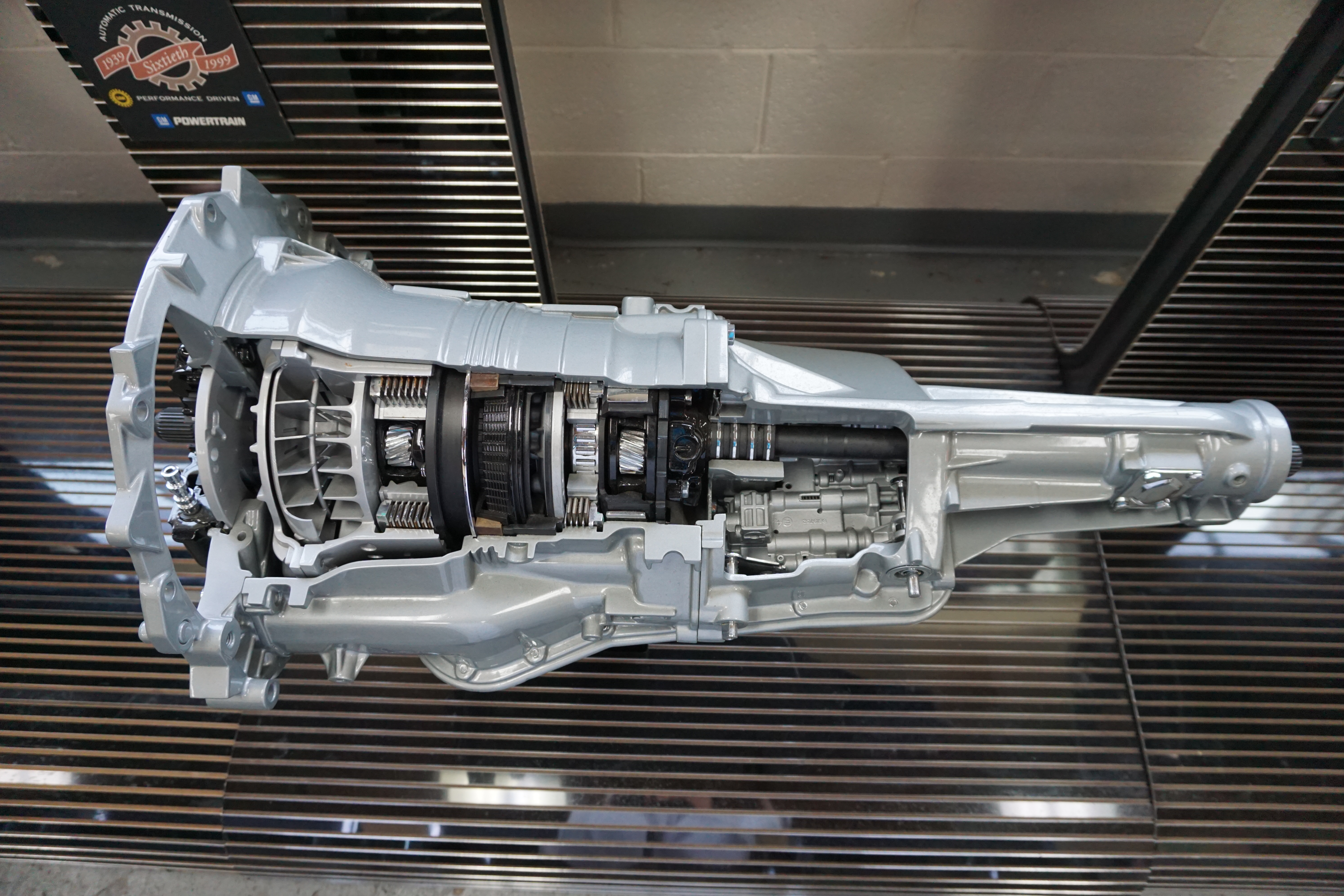 A 1961-64 Hydra-Matic 375 transmission at the Ypsilanti Automotive Heritage Museum in Ypsilanti, Michigan (United States).